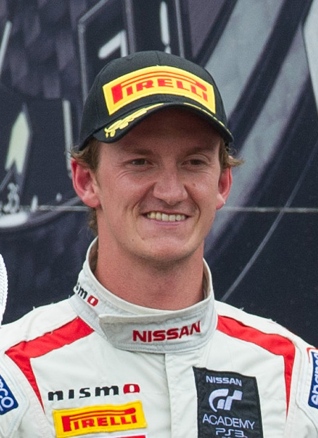 Derivate/cropped version of: File:GT Academy Winners Lucas Ordoñez (EUR, 2008), Jann Mardenborough (EUR, 2011), Wolfgang Reip (EUR, 2012), Peter Pyzera (GER, 2012) at the podium in Spa 24 Hours, 2013.jpg